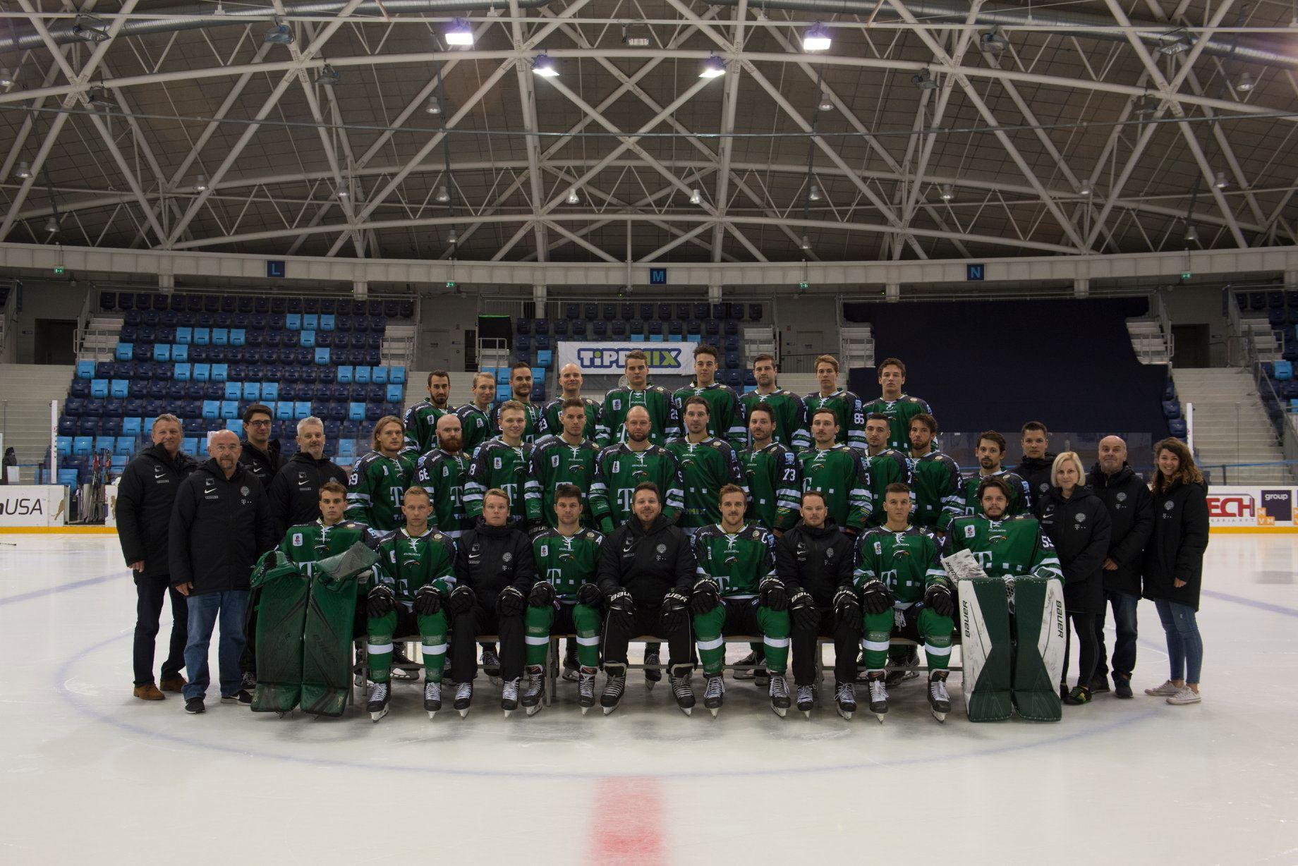 Team photo of the 2019-20 season.